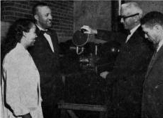 Photograph from newspaper article in THE A&T COLLEGE REGISTER, VOLUME XXXII, No. 8 , THE AGRICULTURAL AND TECHNICAL COLLEGE ,GREENSBORO, N. C. FRIDAY, JANUARY 13, 1961 No copyright renewal. No author identified. No photographer identified. Accompanying article title: "A&T Gets Special X-Ray Equipment" Accompanying article text: : "Deep therapy X-Ray equipment to be used in connection with a research project being conducted at the college was recently installed here. The project is under a grant by the Atomic Energy Commission. Dr. Gladys Royal, associate director of the project, Dr. W. E. Reed, dean of the School of Agriculture, (left), and Dr. George Royal (right), project director, get operational instructions from R. L. Satoera (right center) representative of an X-Ray manufacturing firm, as he demonstrates the equipment."